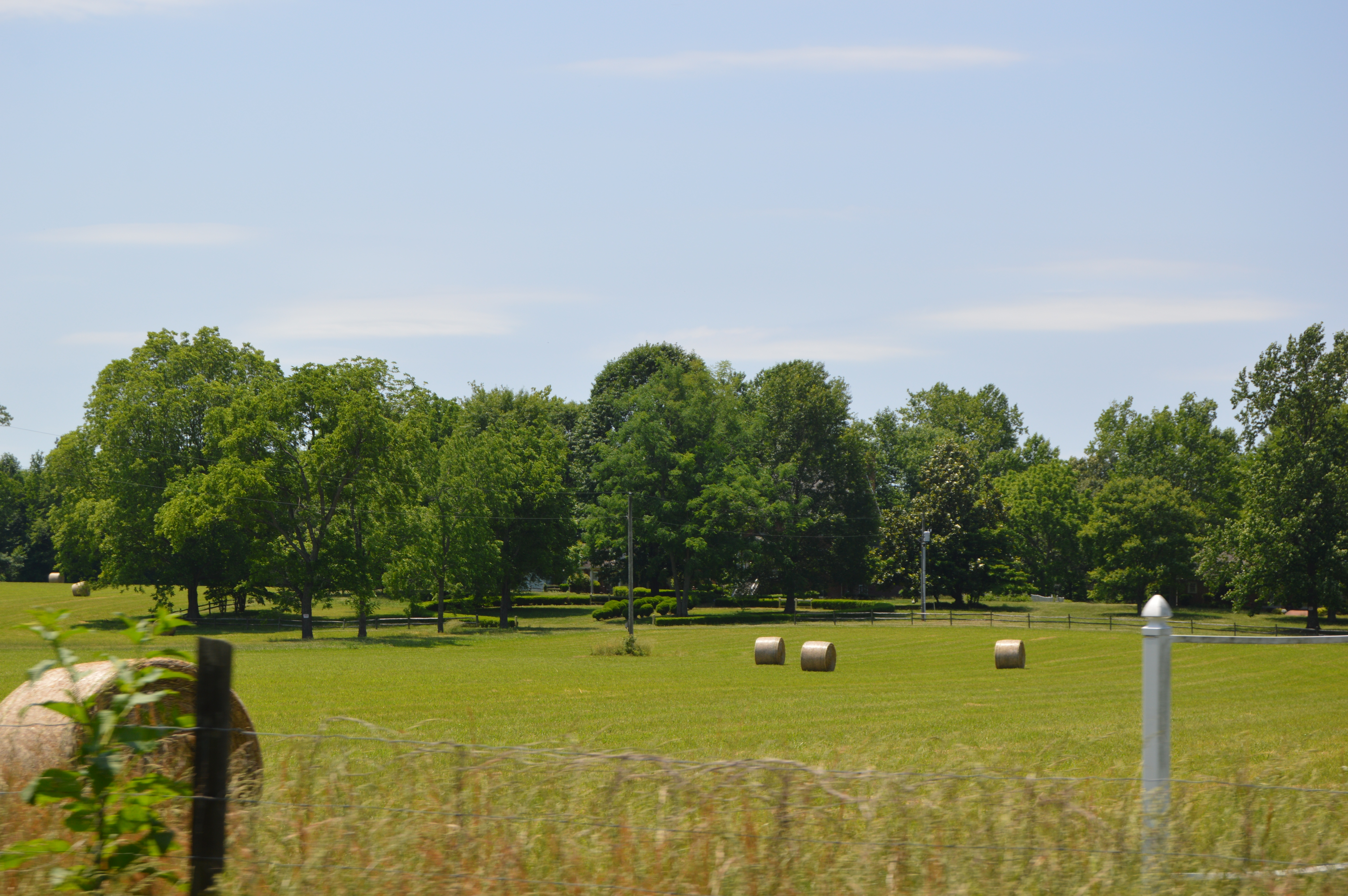 Distant view from the northeast of the Linden estate, located along U.S. Route 17 northwest of Caret in Essex County, Virginia, United States. The estate is listed on the National Register of Historic Places.